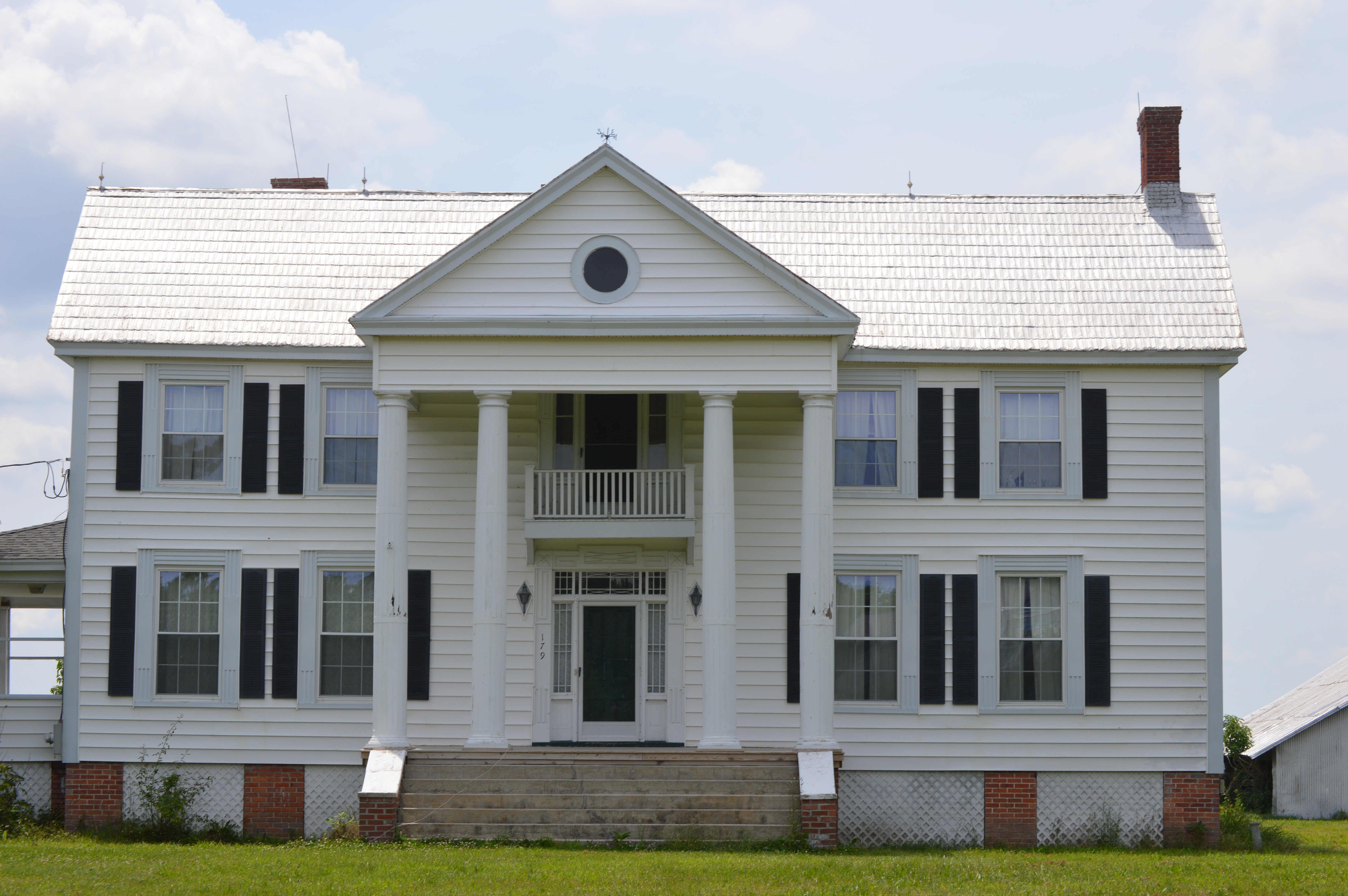 Front of the William Riley Abbott House, located along Nosay Road just southeast of South Mills in Camden County, North Carolina, United States. Built in 1850, it is listed on the National Register of Historic Places.